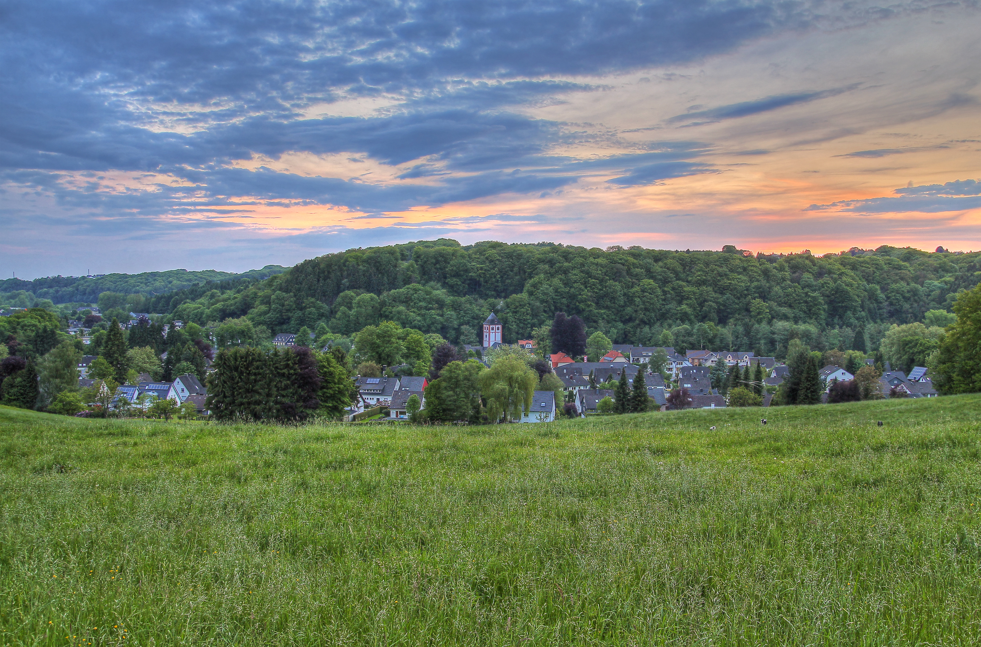 View of Odenthal, NRW.